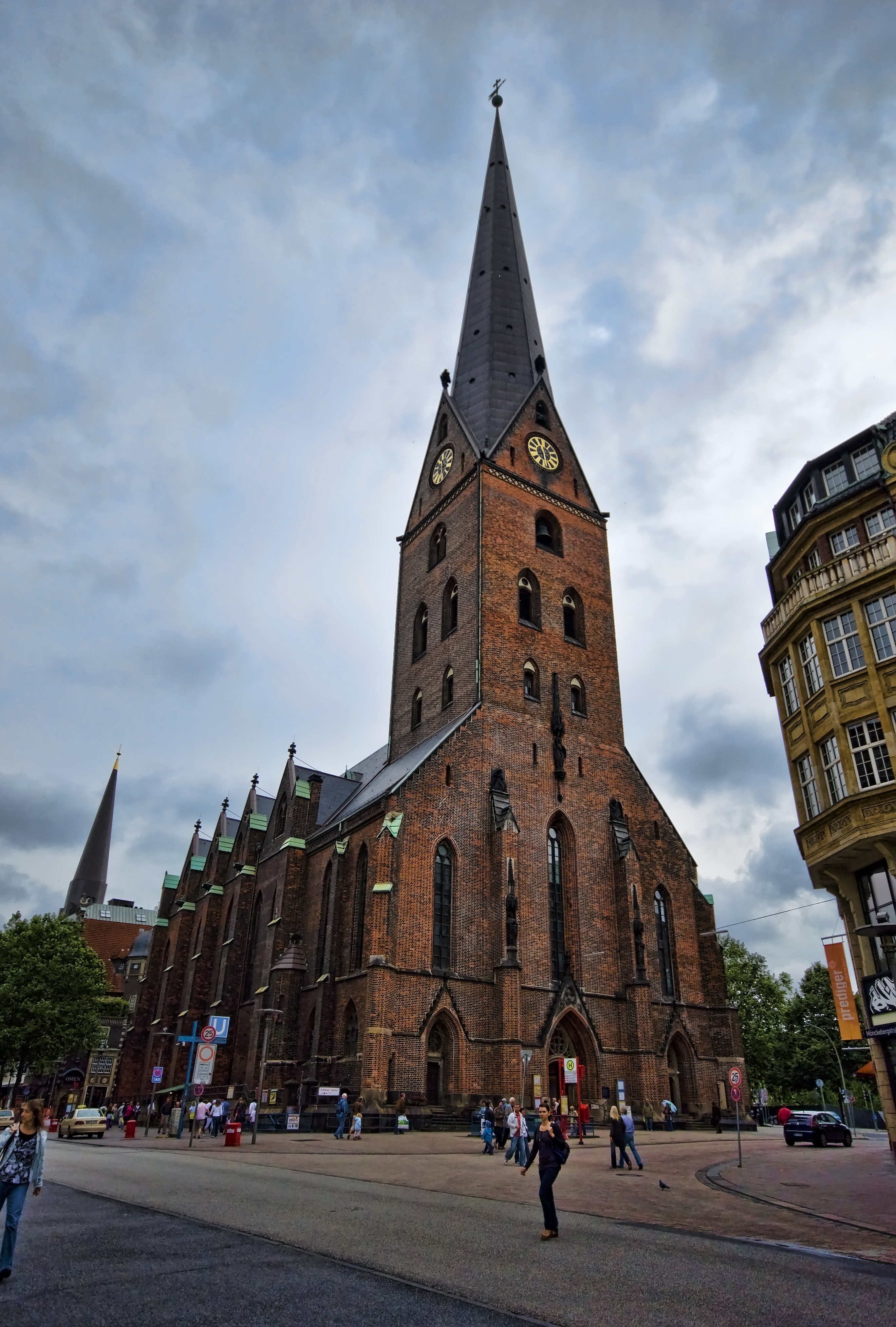 St. Peter's Church in Hamburg-Altstadt. This is a photograph of an architectural monument.